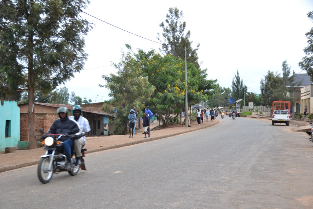 Main street